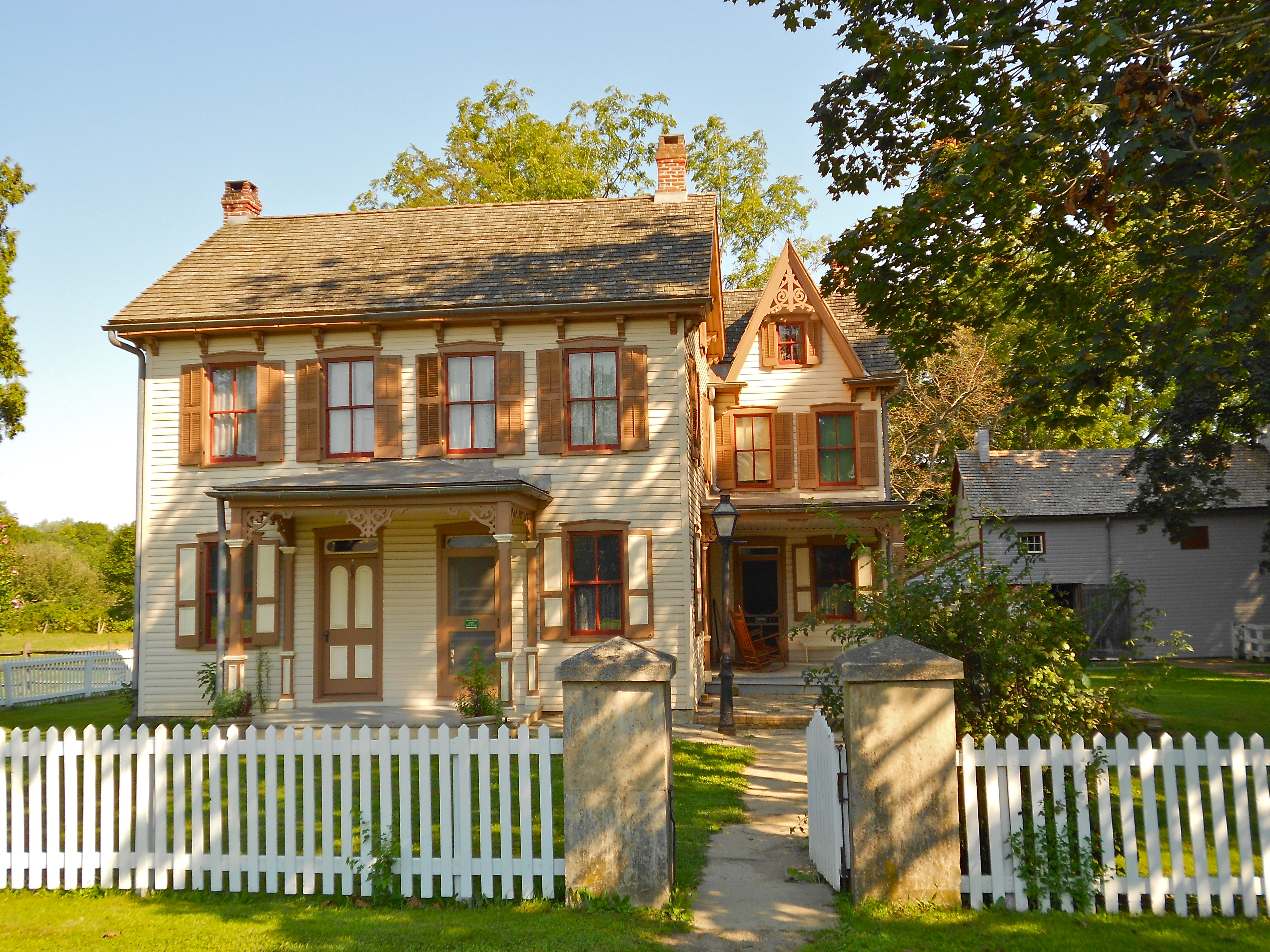 Landis Valley Museum a site run by the Pennsylvania Historic and Museum Commission (PHMC) including historic buildings built on site, others moved there, others built to imitate historic buildings. This is the main Landis house, a historic building built on site 1879.